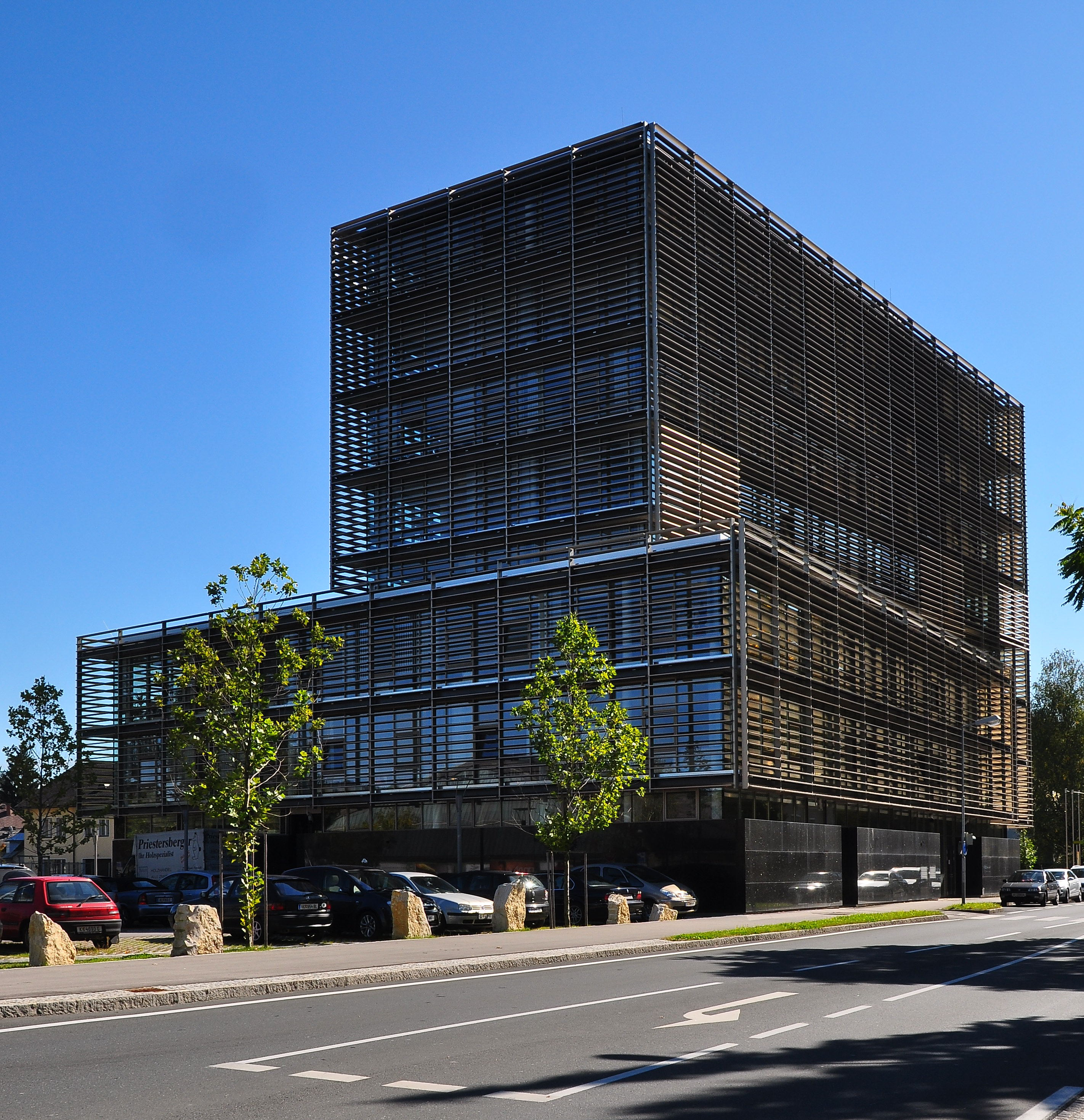 District court in the Feldkirchne Strasse #5, 5th district “Sankt Veiter Vorstadt”, Klagenfurt on the Lake Woerth, Carinthia, Austria